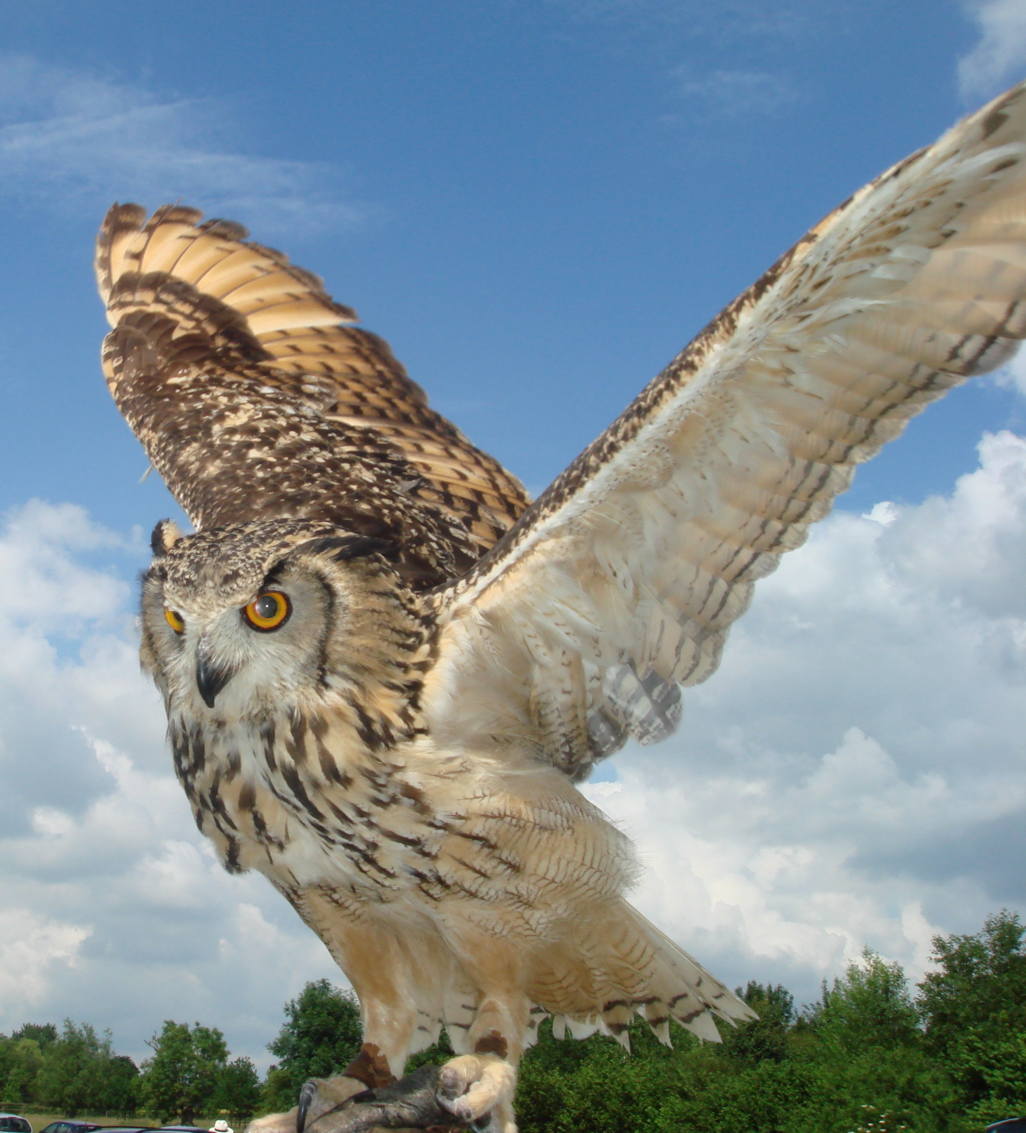 Indian Eagle Owl with wings spread